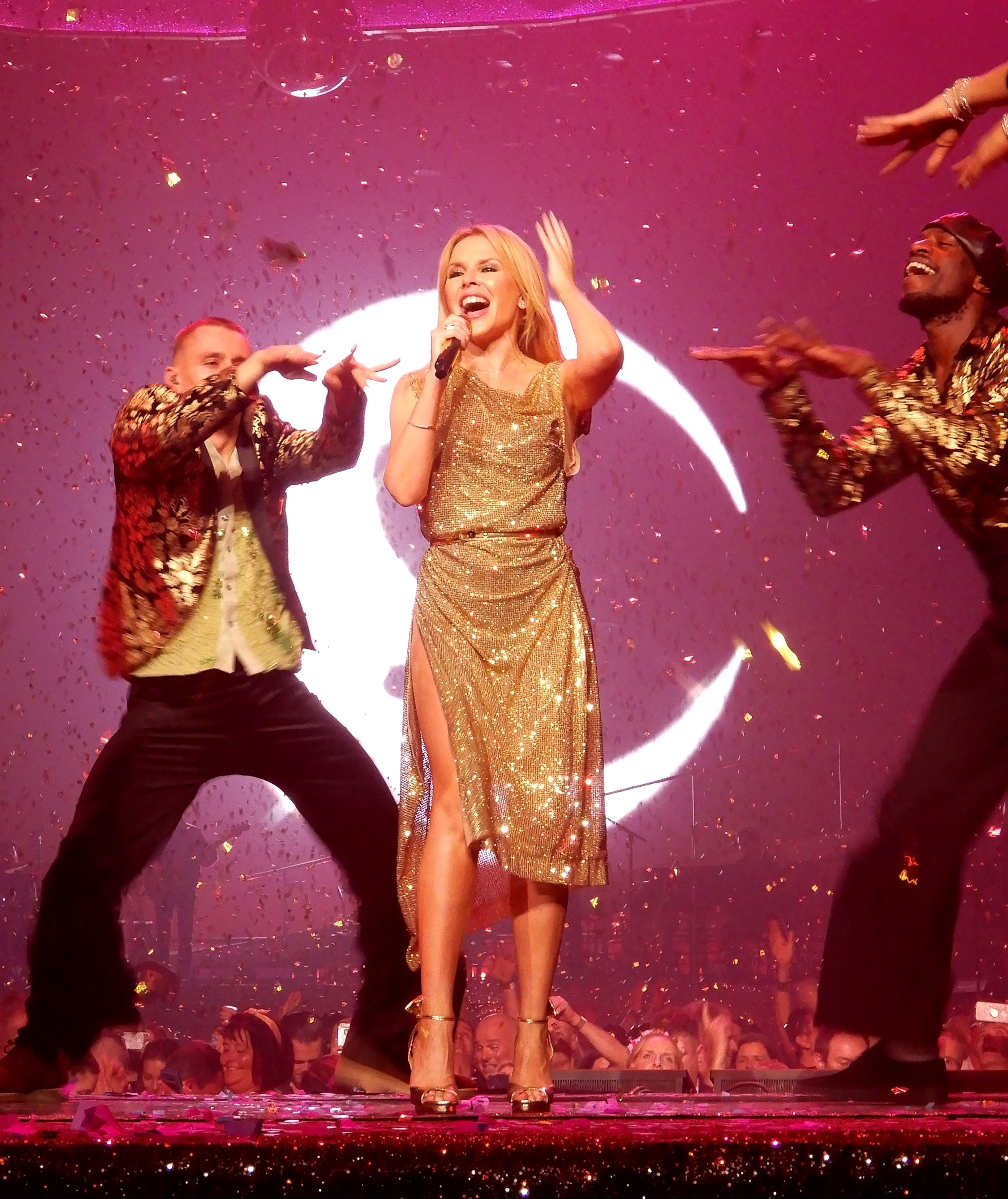 Kylie Minogue - Golden Tour - Motorpoint Arena - Nottingham - 20.09.18. - ( 38 )